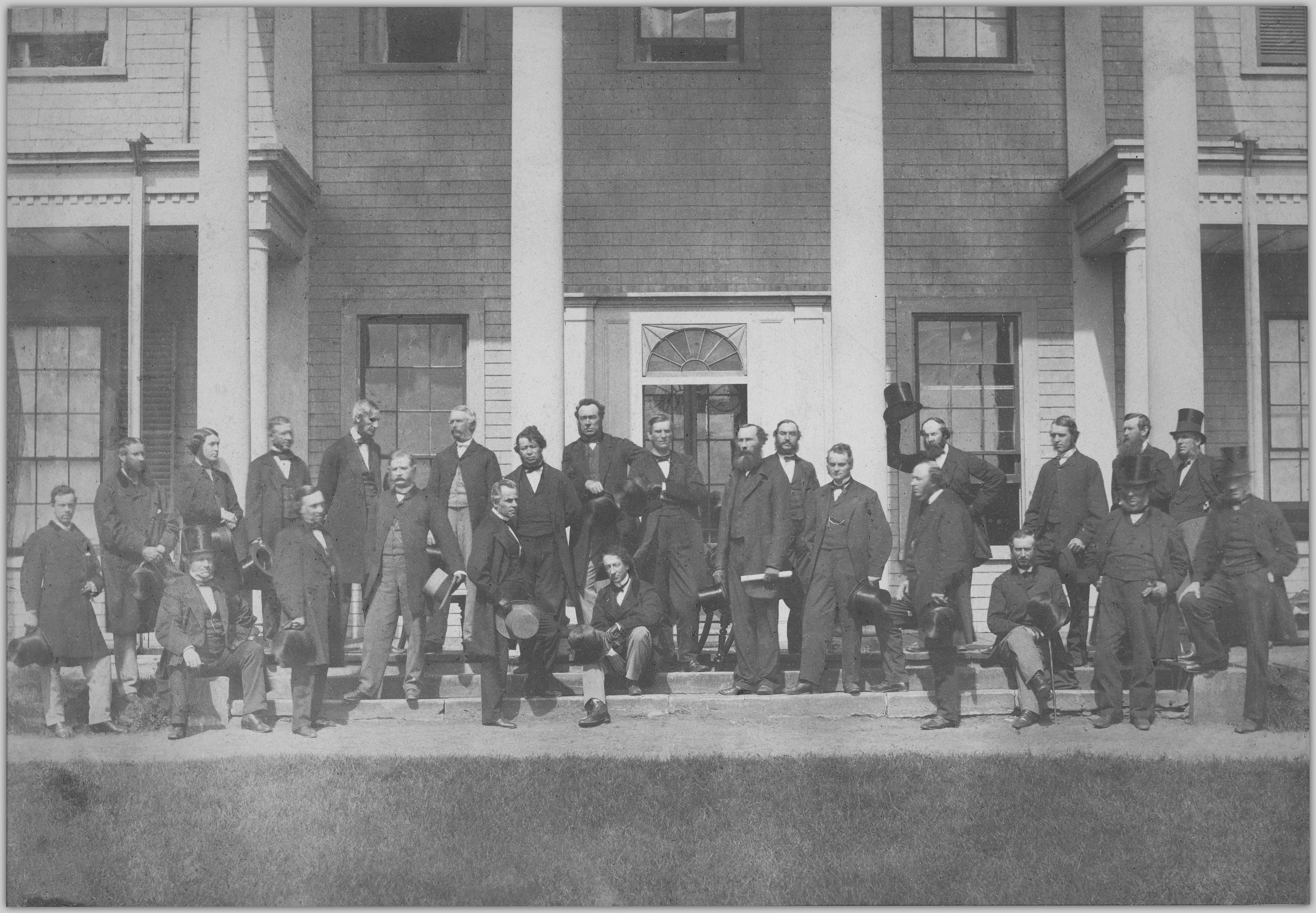 Convention at Charlottetown, P.E.I., of Delegates from the Legislatures of Canada, New Brunswick, Nova Scotia, and Prince Edward Island to take into consideration the Union of the British North American Colonies. Delegates: Col. Hon. John Hamilton Gray, M.P.P. P.E.I. (Chairman of Convention) Hon. John A. Macdonald, M.P.P. Attorney General, Canada West Hon. George E. Cartier, M.P.P. Min. of Agriculture Hon. Thomas D'Arcy McGee, M.P.P., Min. of Agriculture Hon. Wm. A. Henry, M.P.P., Attorney General, N.S. Hon. Wm. H. Steeves, M.E.C., N.B. Hon. John M. Johnson, M.P.P. Attorney General, N.B. Hon. Samuel Leonard Tilley, M.P.P., Prov. Secretary, N.B. Hon. R. Dickey, M.L.C. N.S. Lt. Col. Hon. J.H. Gray, M.P.P., N.B. Hon. E. Palmer, M.L.C. Attorney General, P.E.I. Hon. E. Botsford Chandler, M.L.C., N.B. Hon. H.L. Langevin, M.P.P., Solicitor General, Canada East Hon. Charles Tupper, M.P.P., Provincial Secretary, N.S. Hon. A.T. Galt, M.P.P., Finance Minister Hon. Adams G. Archibald, M.P.P., N.S. Hon. A.A. Macdonald, M.L.C., P.E.I. Hon. Abt. Campbell, M.L.C. Commissioner of Crown Land Hon. Wm. McDougall, M.P.P., Provincial Secretary Hon. Wm. H. Pope, M.P.P. Colonial Secretary, P.E.I. Hon. J. McCully, M.L.C., N.S. Hon. G. Coles, M.P.P., P.E.I. Hon. G. Brown, M.P.P., President Executive Council Maj. Hewitt Bernard, Secretary to the Attorney General Mr. Charles Drinkwater, Private Secretary to the Attorney General, Canada West William H. Lee, Clerk Executive Council.